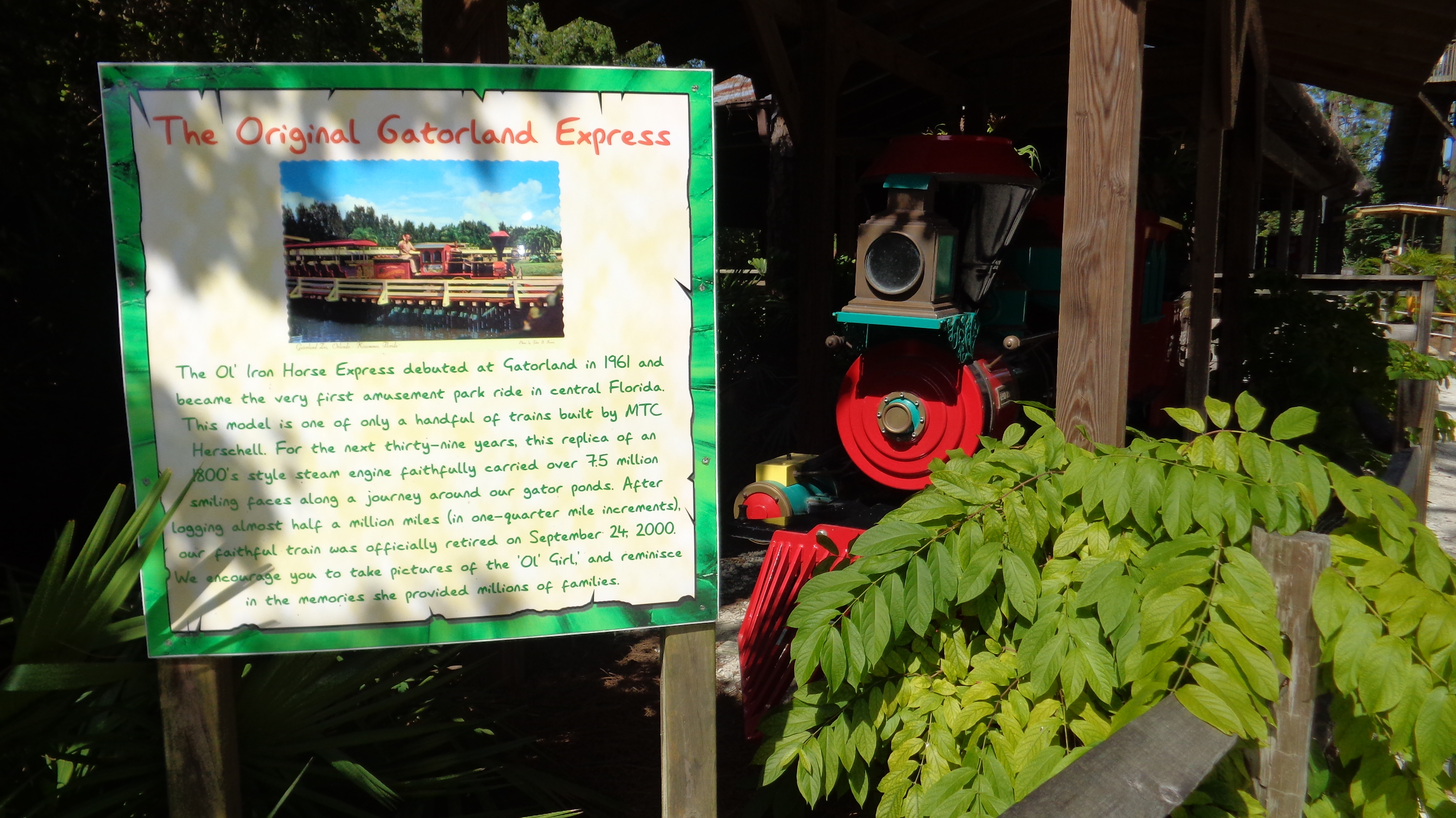 The original locomotive used for the railroad attraction in Gatorland on display at its main station.